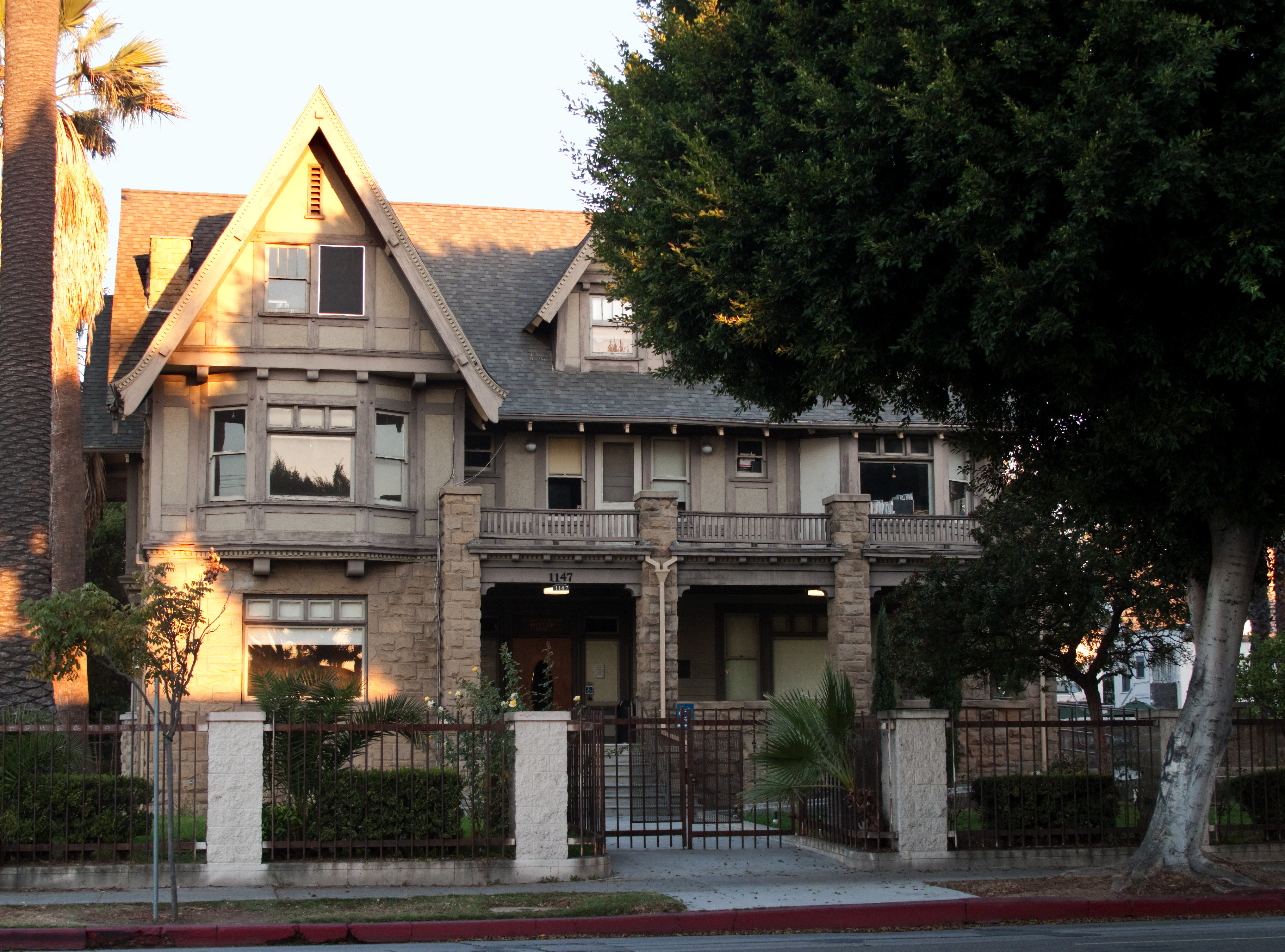 August Winstel Residence, 1147 S. Alvarado St., in the Pico-Union neighborhood of Los Angeles, California. Los Angeles Historic-Cultural Monument #328.